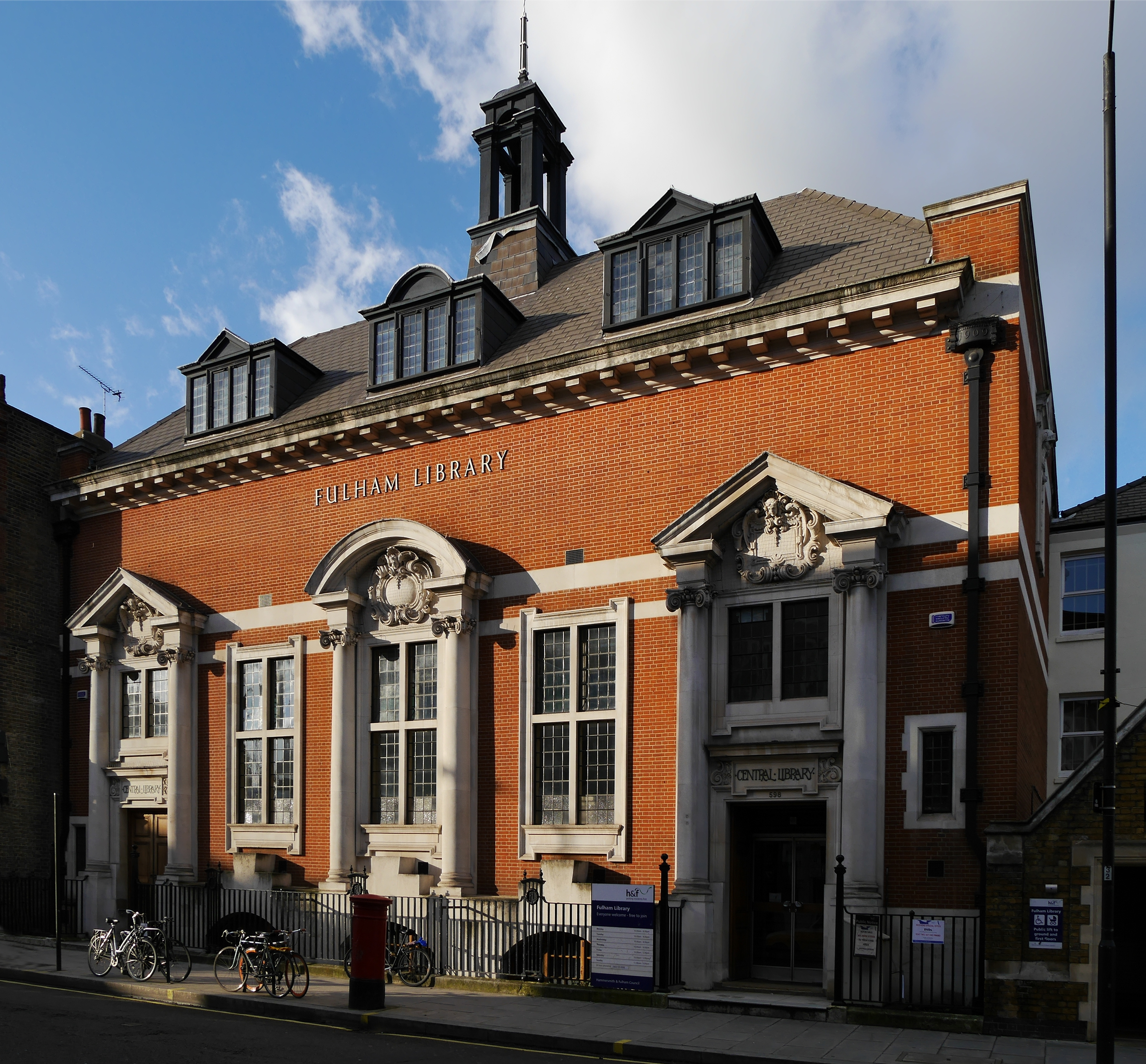 Fulham Library, 11 January 2014